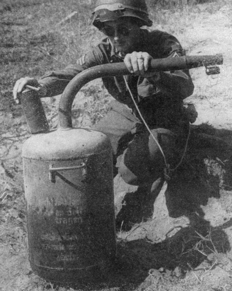 A picture of a US soldier posing with a German World War II static flamethrower / flamemine